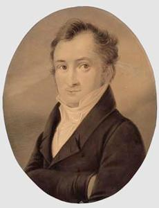 The austrian engineer Georg Altmütter (1787-1858)